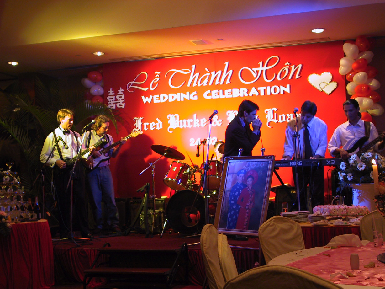 The Peking All-Stars playing at the wedding of the bass Player Fred Burke in Hanoi in 1985. Burke, now an attorney in Hanoi, is on the far left, Tad Stoner - now a journalist in Grand Cayman, is to his right and Graham Earnshaw, founder of the Peking All-Stars, is on harmonica in the center. The other two players are session musicians from Hanoi. This photo was donated by Tad Stoner.